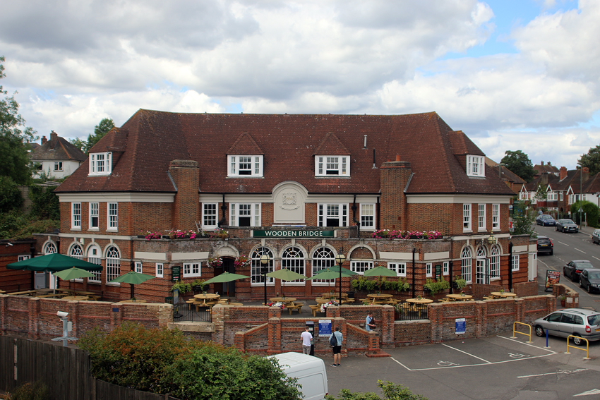 Wooden Bridge pub, Stoughton, Guildford. Scene of early concerts by the Rolling Stones and Eric Clapton A typical 1930s "road house" design.